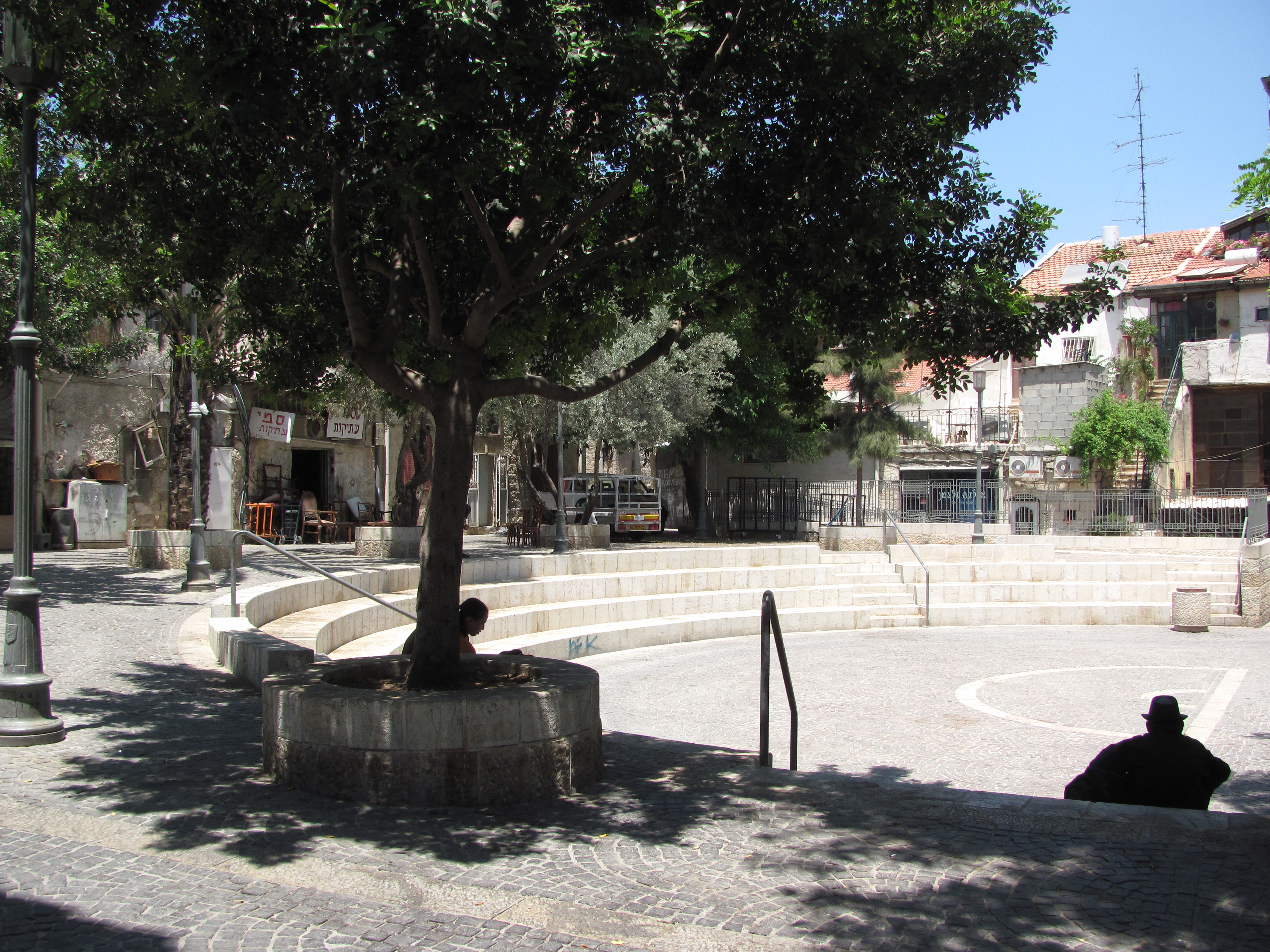 Stone amphitheater in the central courtyard of the historical Even Yisrael neighborhood, Jerusalem, Israel.